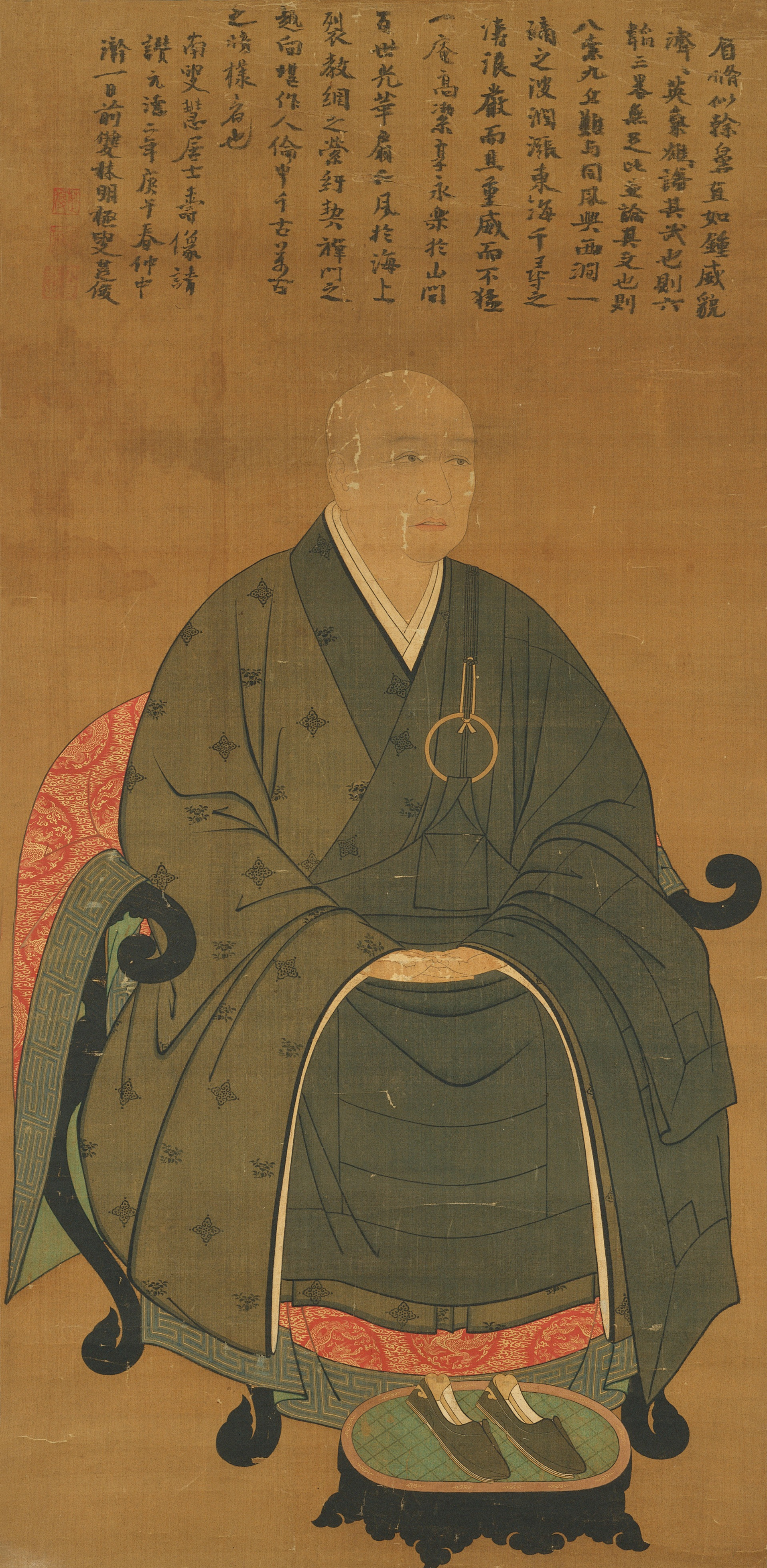 Andō Ene, Nara National Museum